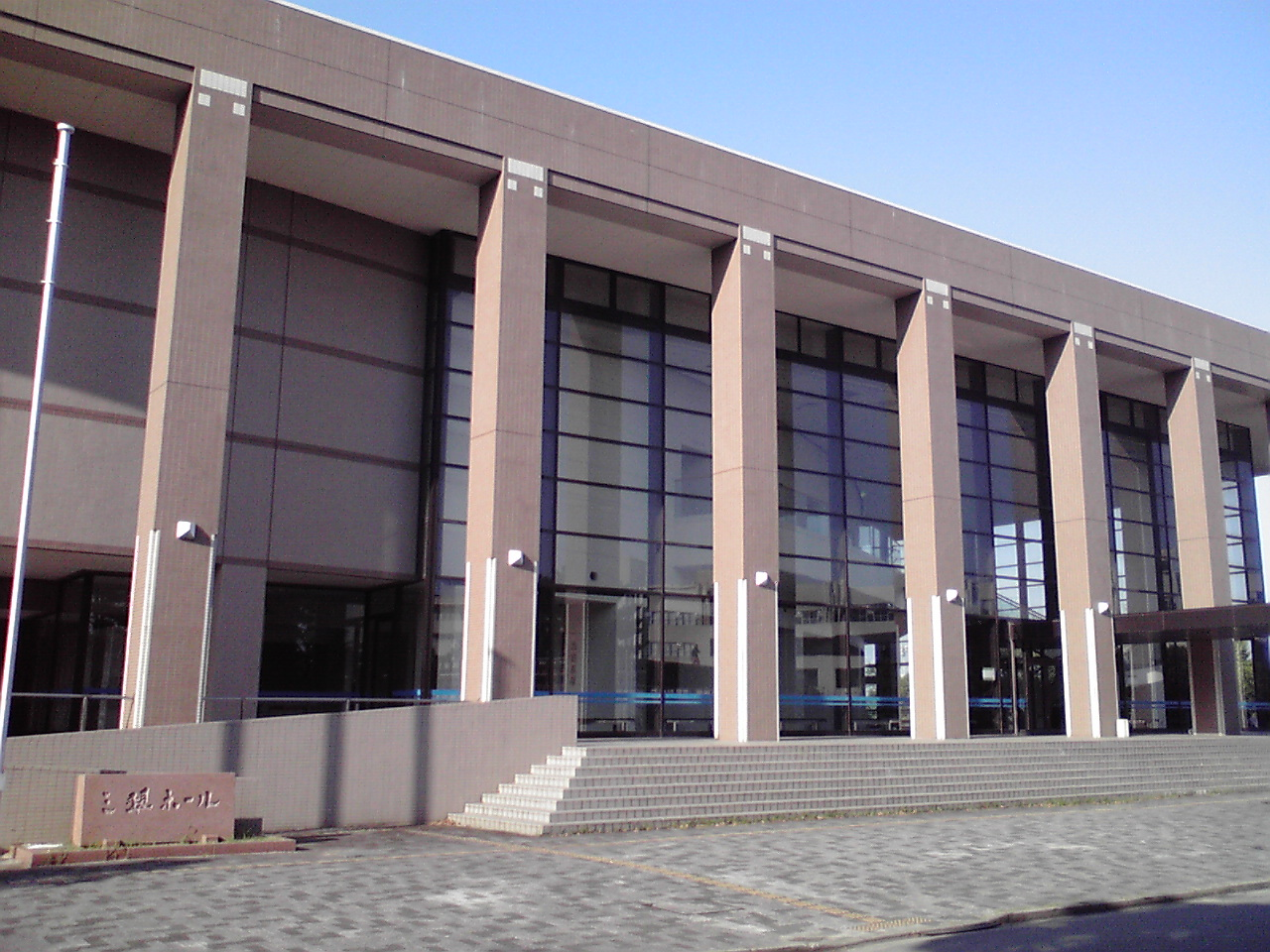 This is a hall in Mie University.